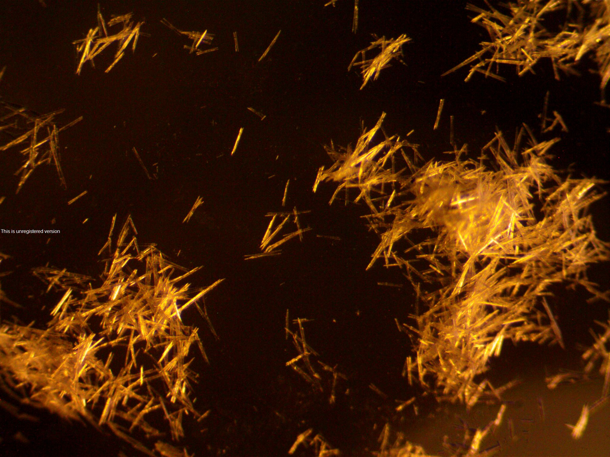 The needles of silver fulminate